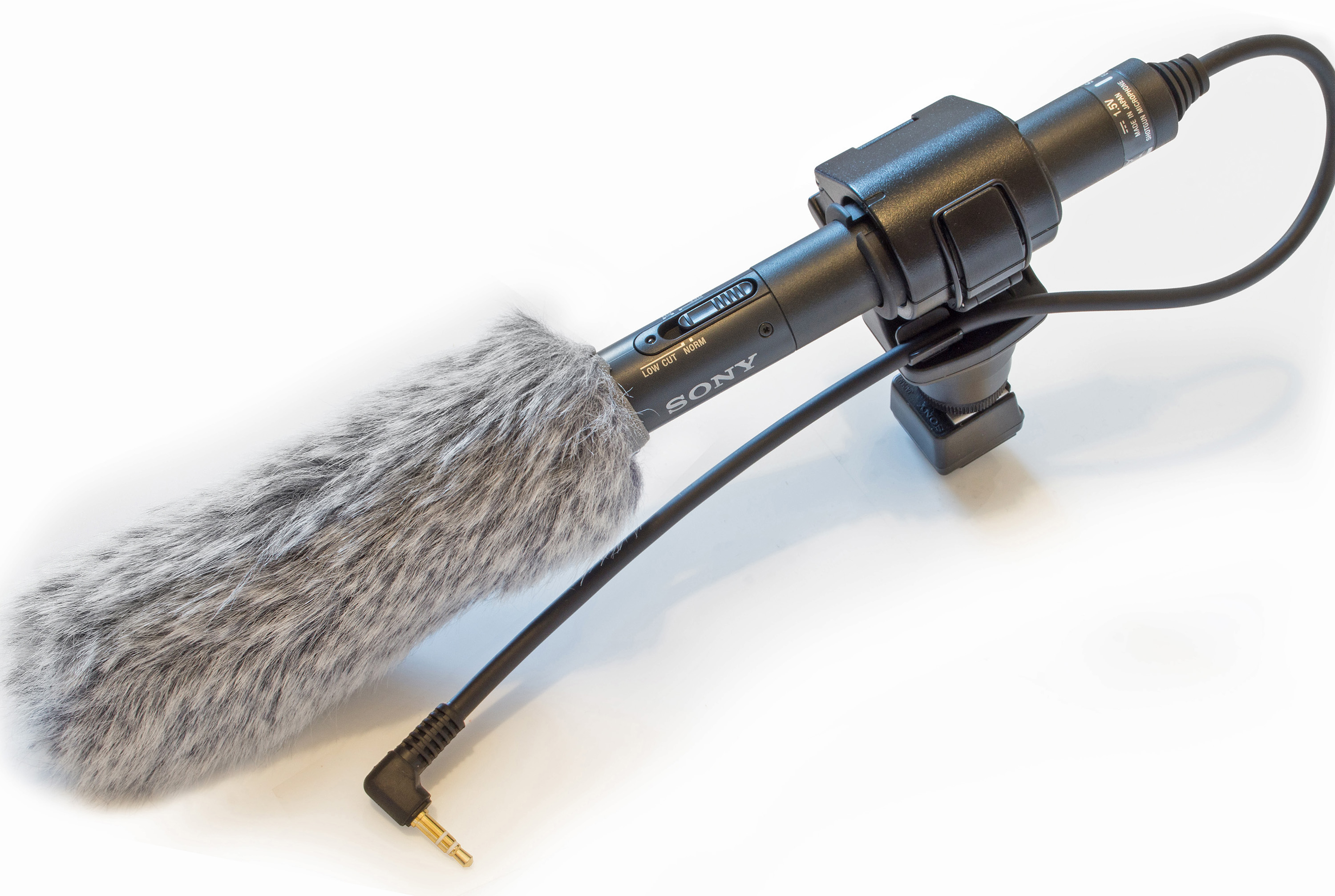 Derived from File:Sony ECM-CG50.jpg